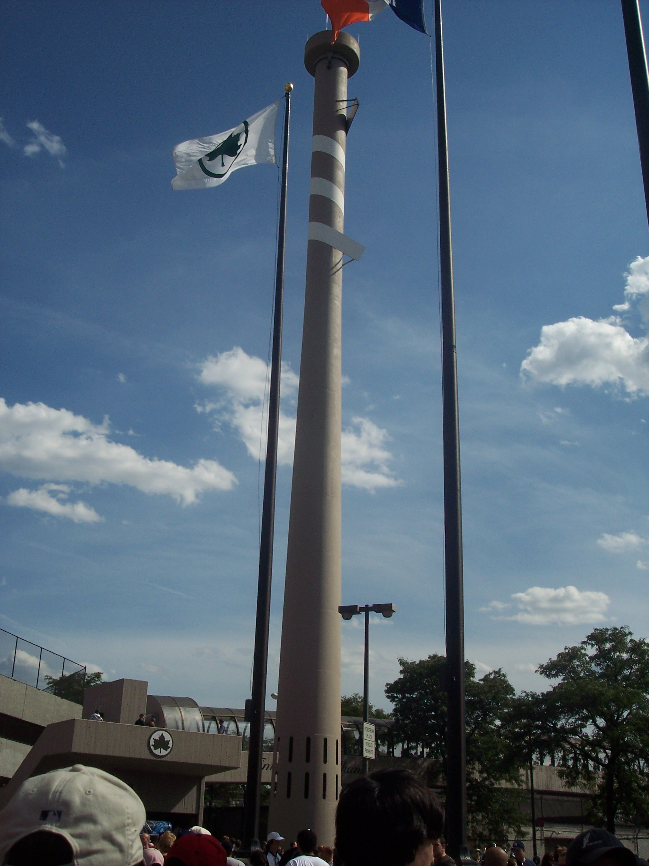 Source: I, the Silent Wind of Doom took the picture at Yankee Stadium 16:35, 3 July 2007 . . Silent Wind of Doom . .2142 x 2856 (832,190 bytes)